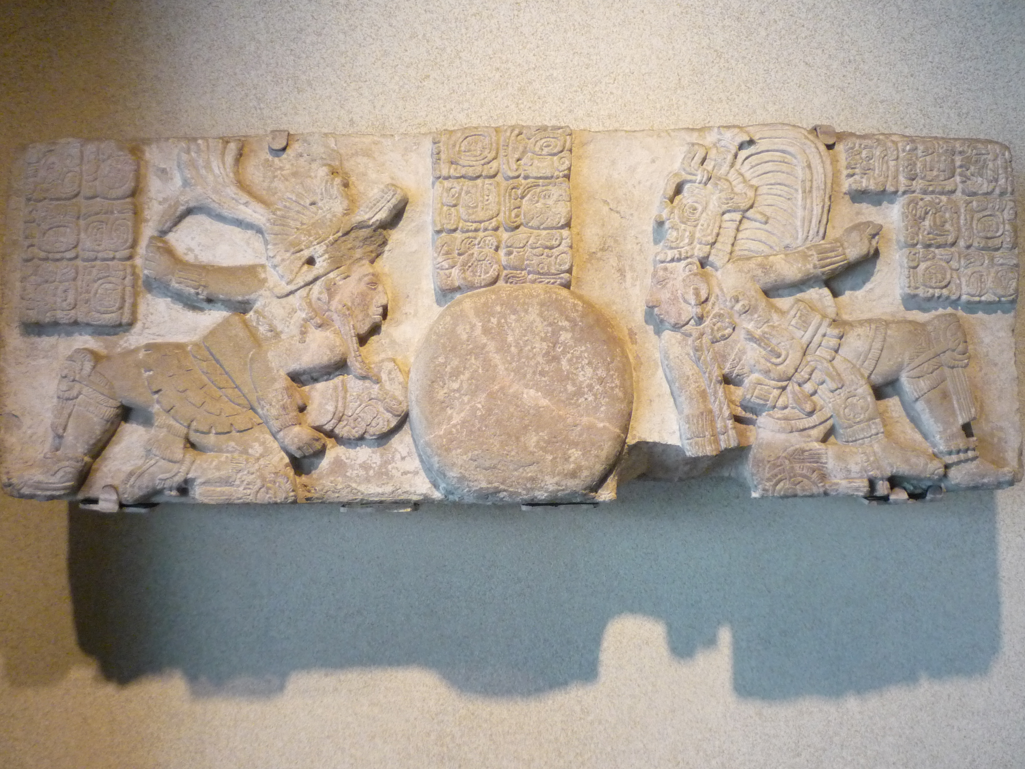 Maya Room. National Museum of Anthropology (Mexico)